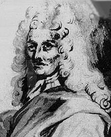 Sir William Paterson